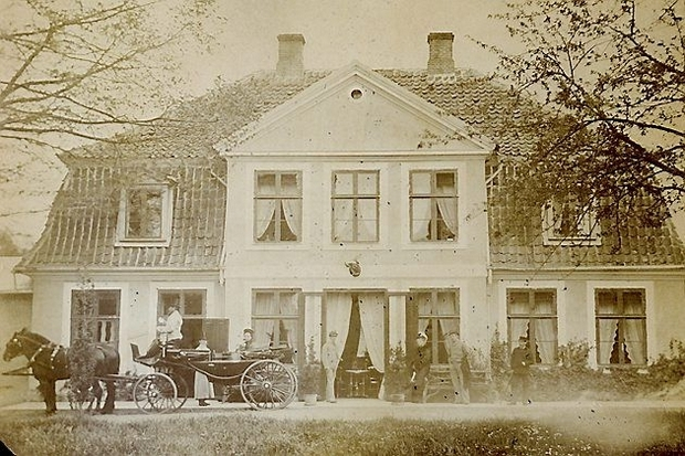 Folehavegård in Hørsholm, Denmark